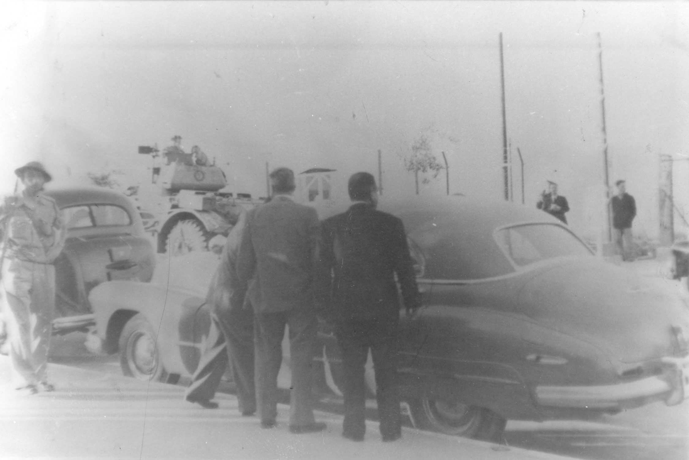 The Arab surrender delegation after the battle.